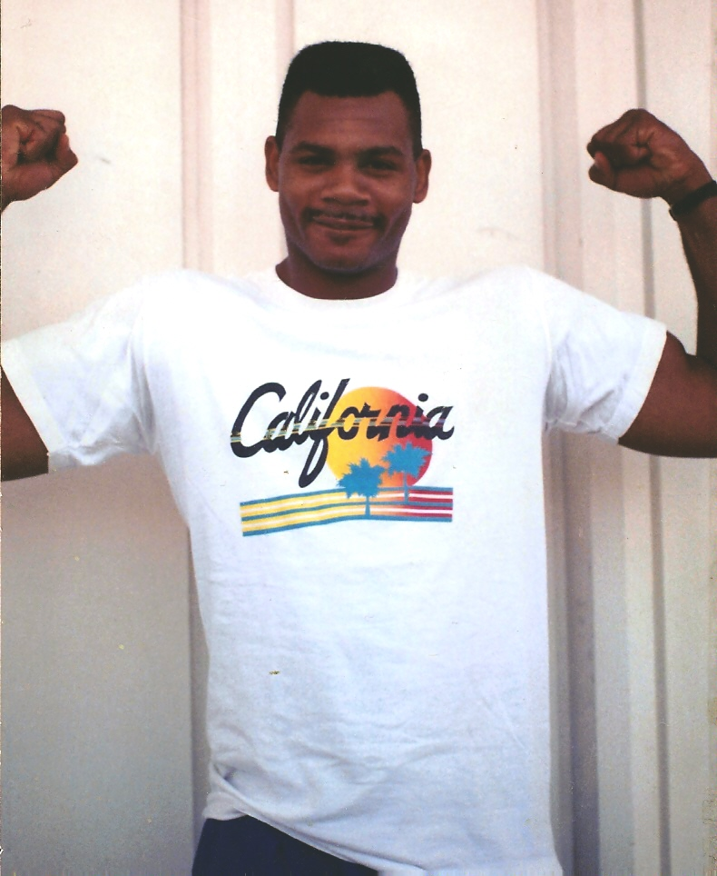 Hank Gathers, basketball player for Loyola Marymount University, at the Sportscasters Camps of America in 1990. My personal image.